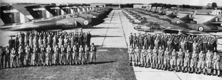 Members of No. 64 Squadron, Royal Air Force, with nine Gloster Javelin FAW.7 in the background (left row) at RAF Duxford, Cambridgeshire (UK), in 1959. To the right are nine Hawker Hunters of 65 squadron. The photo was taken, because two captains of the United States Marine Corps, B.M. Adrian and Dirk Bierhaalder, served as radar operators with 64 Squadron.